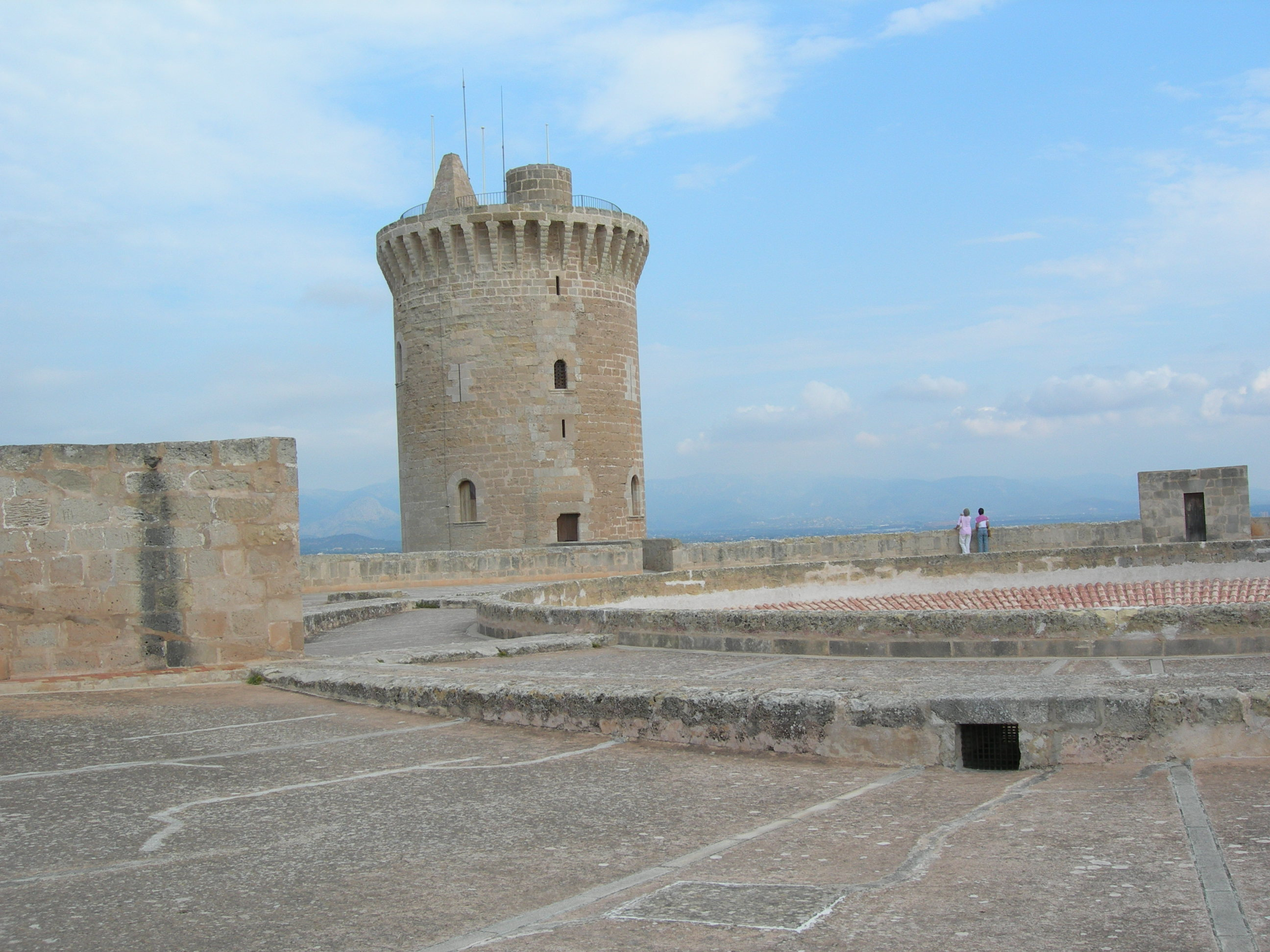 Terrace of Castle of Bellver